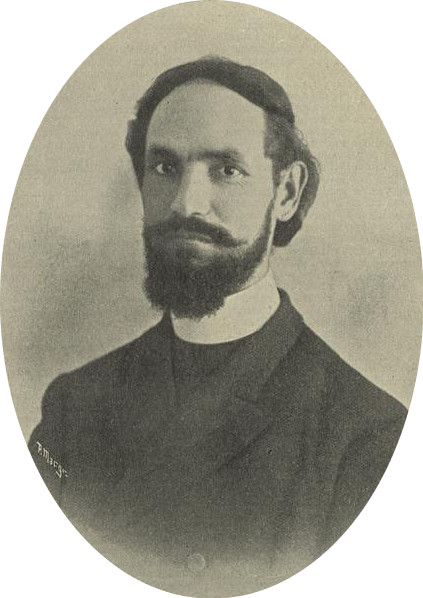 Fr. Manuel António Gomes, called "Father Himalaya" (1868-1933), Portuguese Catholic priest, inventor and physicist